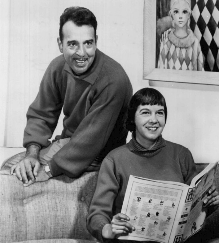 Photo of Tennessee Ernie and Betty Ford at their home in 1962. This photo was issued by ABC-TV, where Ford had a weekly variety show at the time.